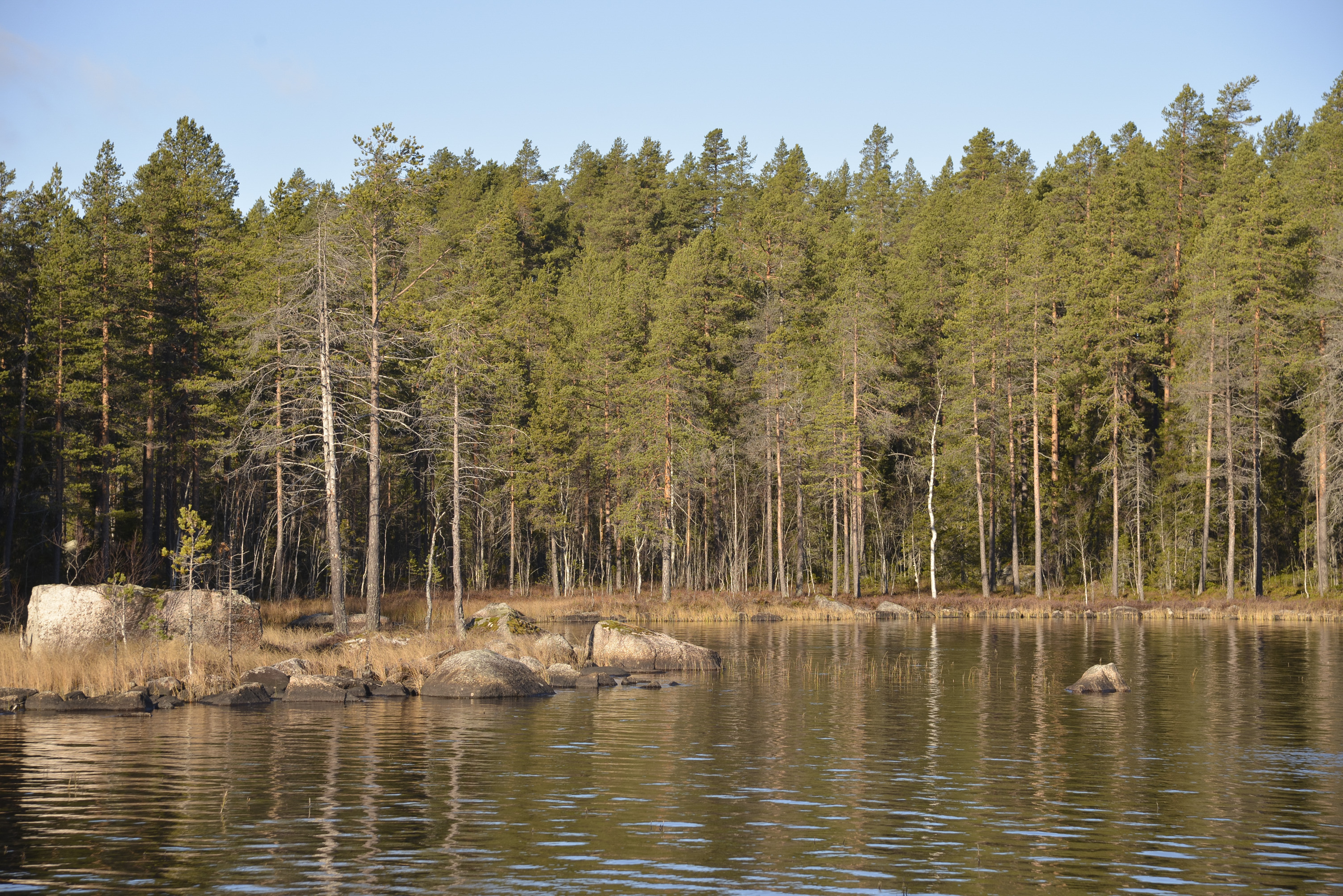 An autumn picture of Sör-Holmsjön.